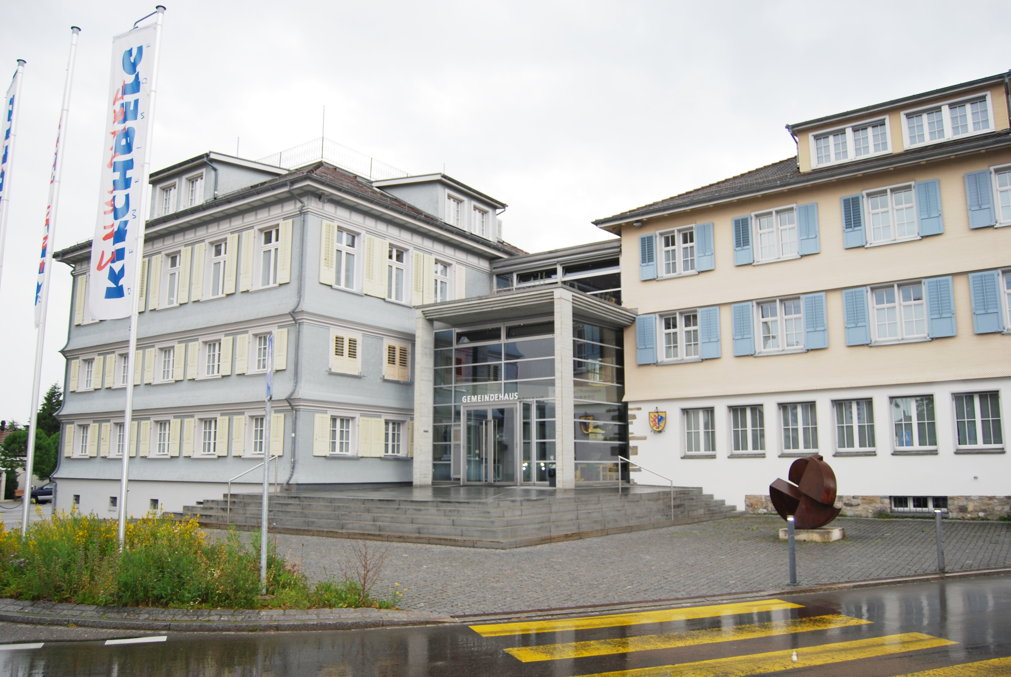 Kirchberg, canton of St. Gallen, Switzerland